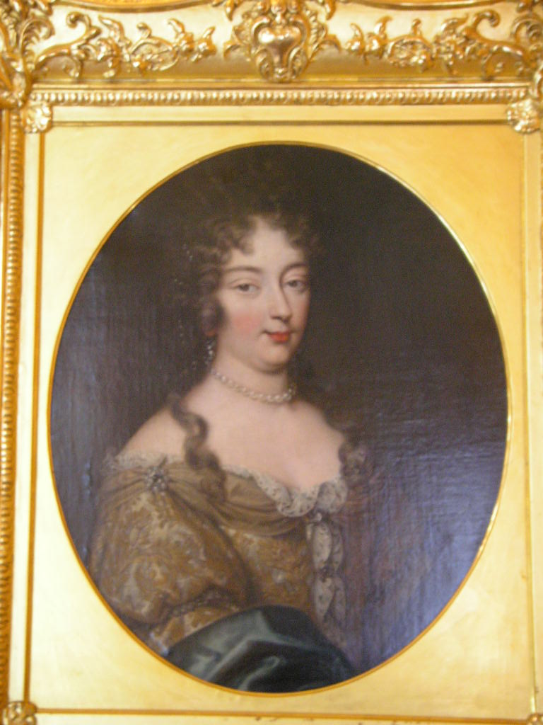 Portrait of Olympia Mancini (b. 1640 - d. 1708), the mother of Prince Eugene of Savoy, niece of Cardinal Mazarin. Painting located at the Winterpalais Prinz Eugen in Vienna's first district. Painted by Pierre Mignard (1612-1695).